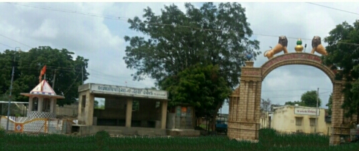 Balel Pipariya ગુજરાતી: બળેલ પિપરીયા